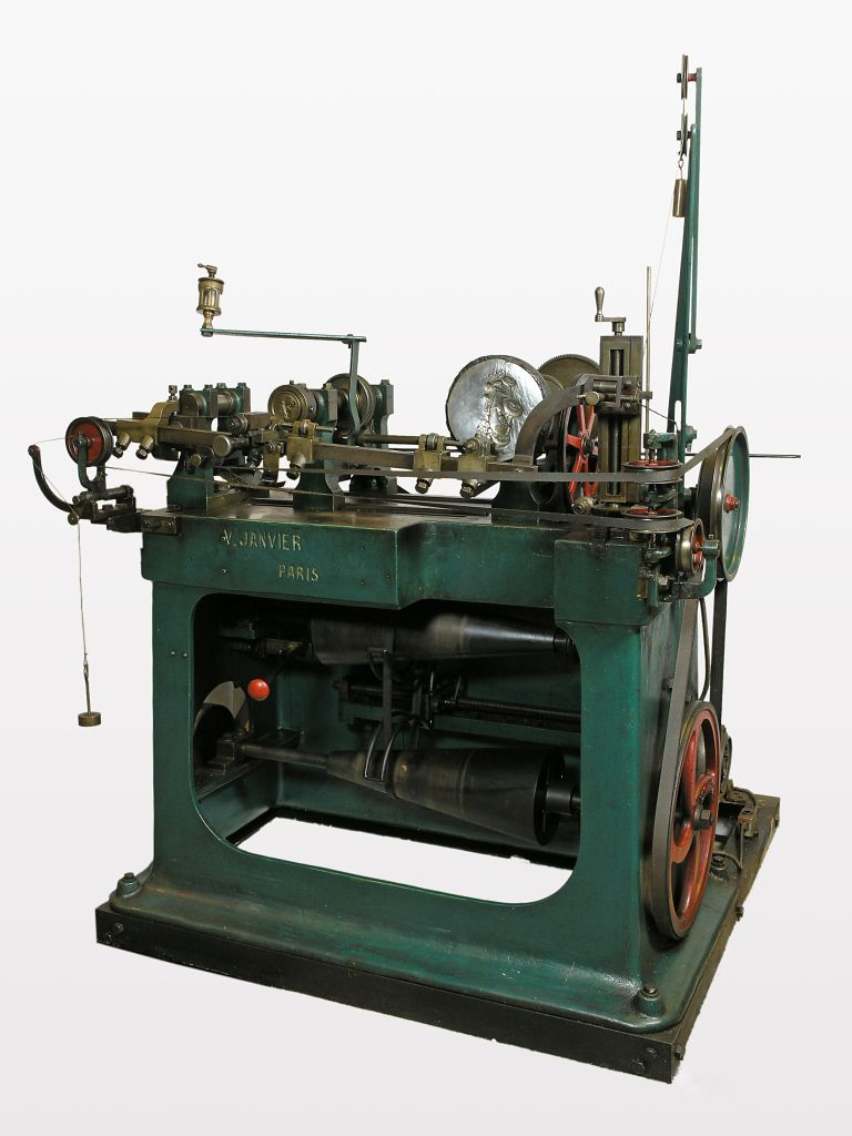 Medallion Copying Lathem also known as a 'Reducing Machcine'. It uses a combination of pantograph mechanism and cords or bands over different size pulleys to control its operation. Made by V Janvier of Paris, France. Editing Undertaken: background removed, Shadows/Highlights, Unsharp Mask